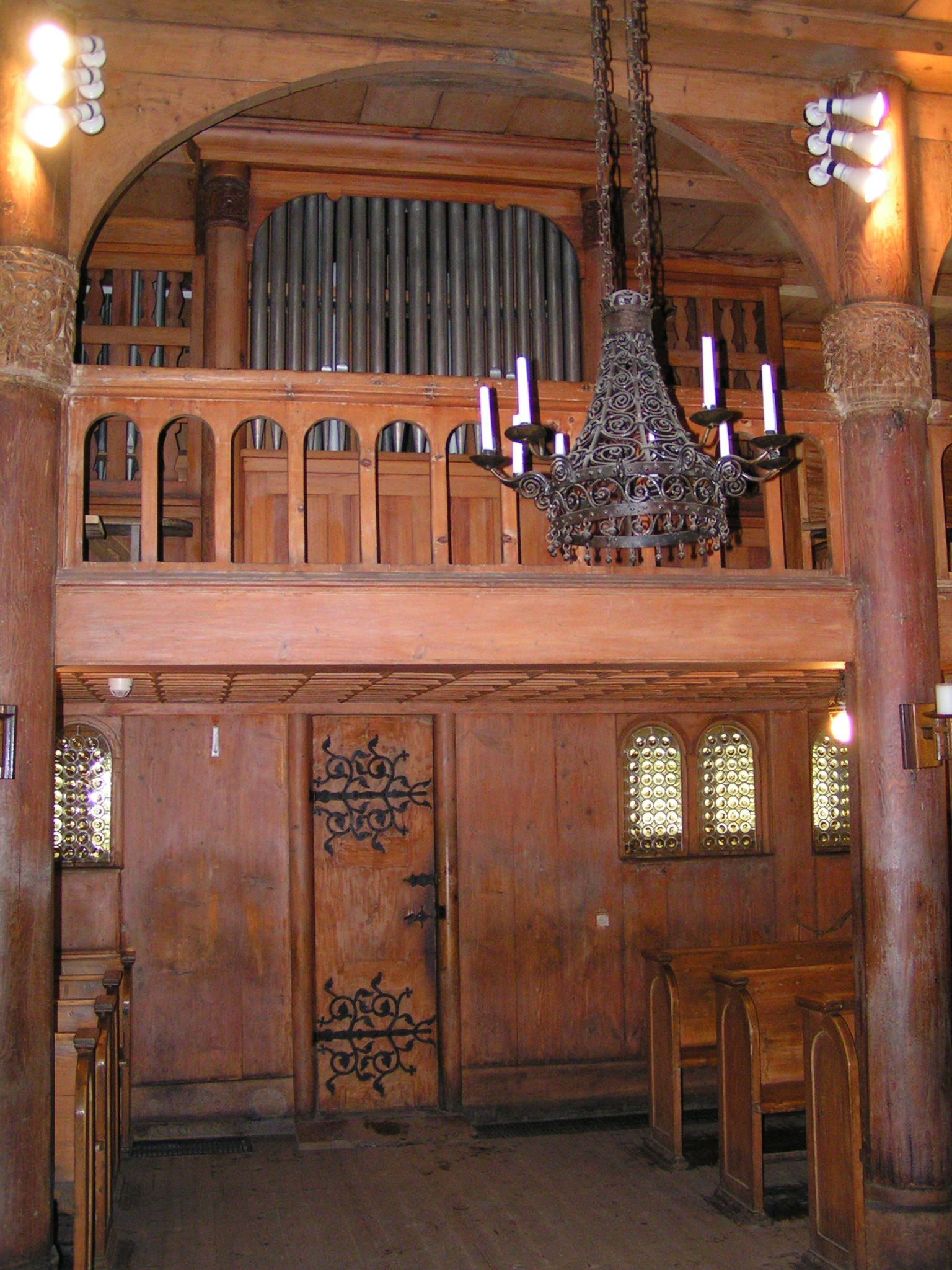 Church Wang in Karpacz, Poland